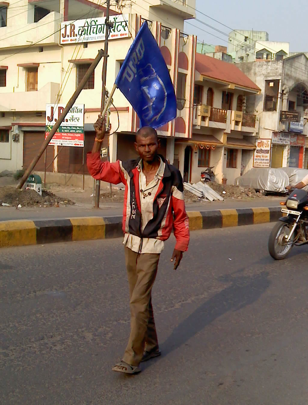 A man walking alone with the Bahujan Samaj Party (BSP) flag in the wake of municipality elections in Nagpur. BSP that emerged as the party of dalits and oppressed people in Uttar Pradesh, the most populous state of India, is still in early stages of organization in Maharashtra.